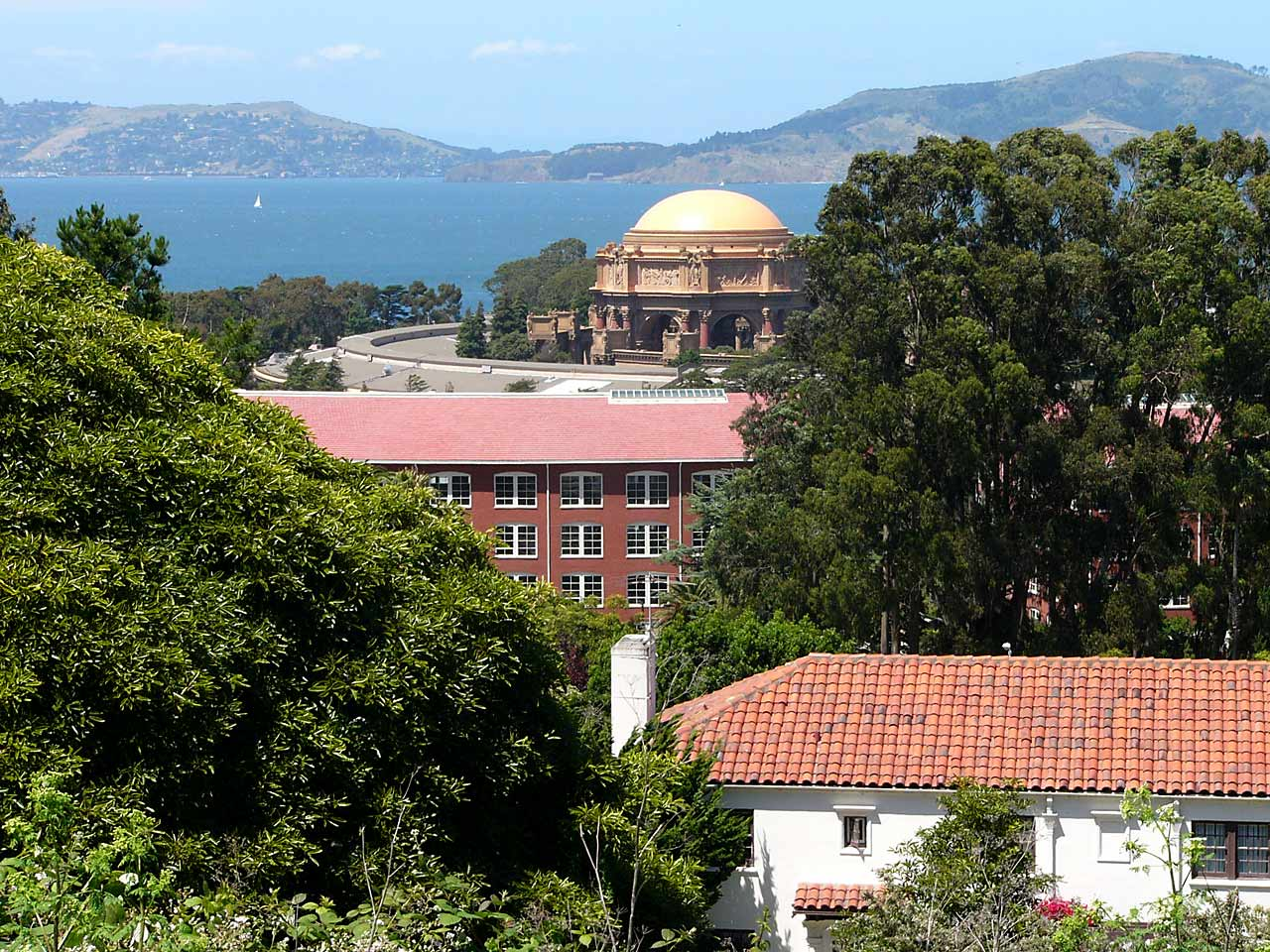 Bay view from Simonds Loop, Presidio of San Francisco